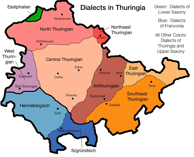 Linguistic map of Thuringian dialects in English in the jpg format, adapted from the German original